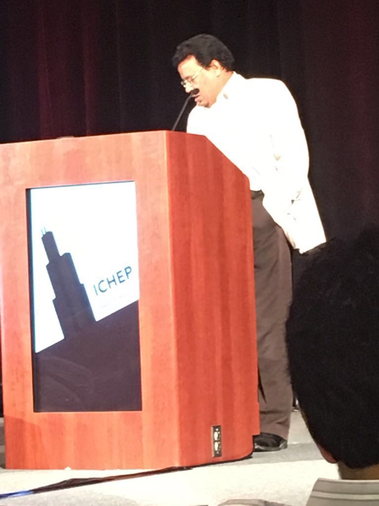 ICHEP2016 Talk